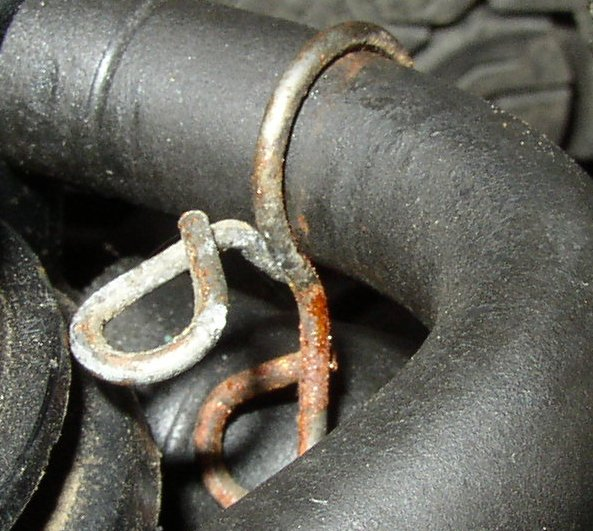 A thin wire hose clamp used on a vacuum hose. I took this picture myself, and am releasing it under the GFDL.